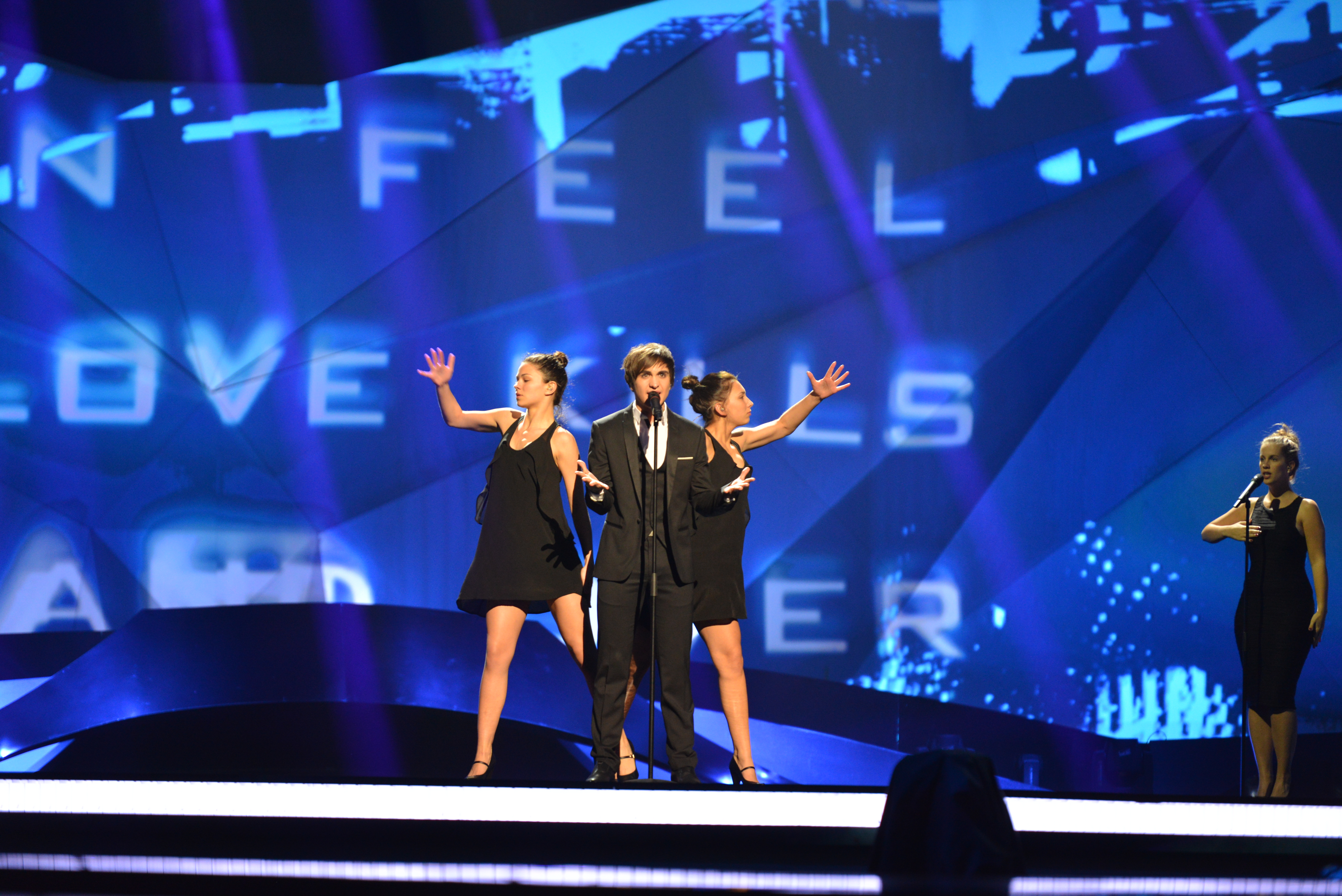 Roberto Bellarosa representing Belgium with the song "Love Kills" during the first dress rehearsal of the first semi final of the Eurovision Song Contest 2013 in Malmö. (Help translate this text)